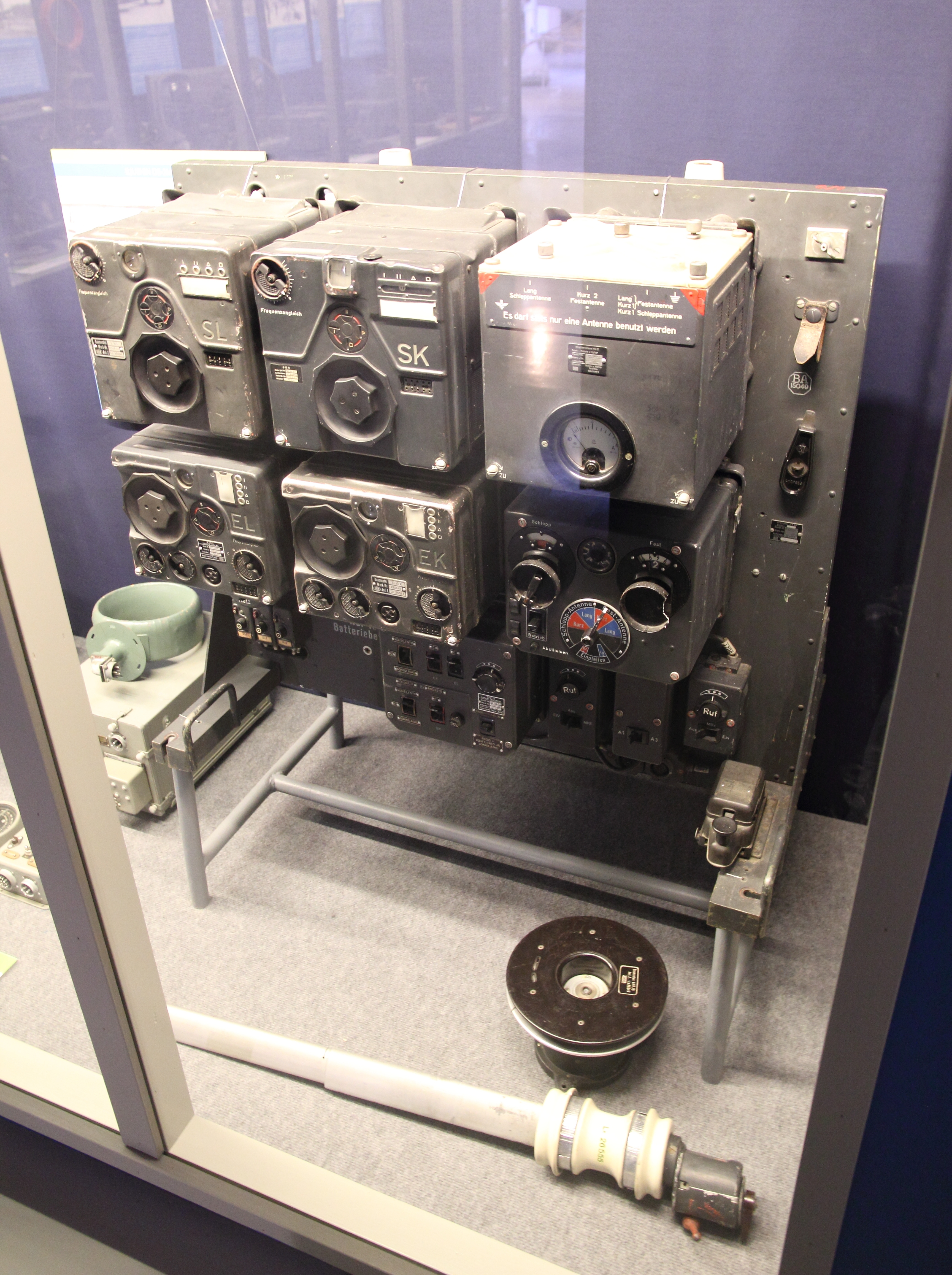 German FuG 10 aircraft radio used in Dornier Do 17 Z bomber. Photographed in the Finnish Air Force signals museum.